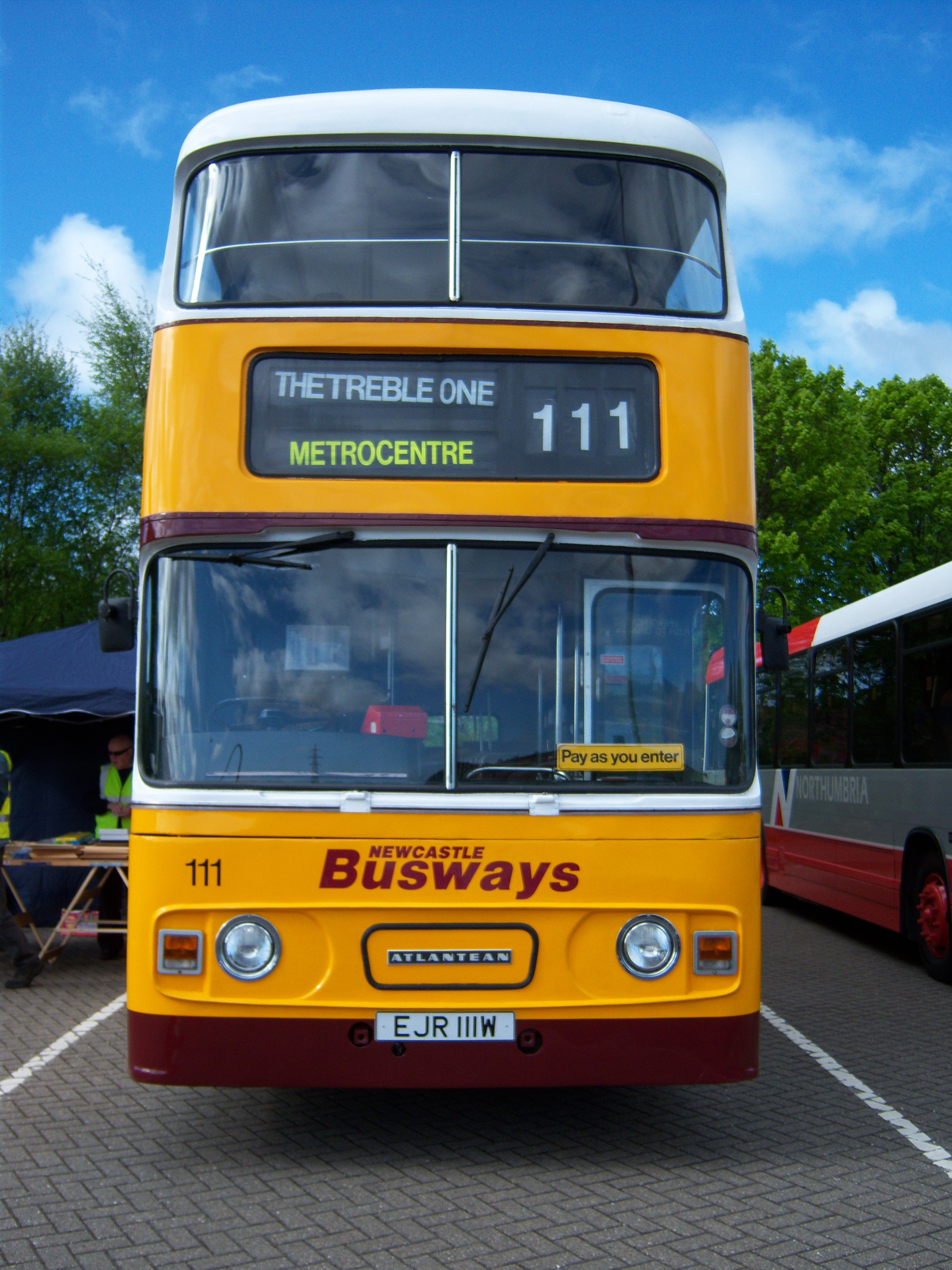 Preserved Busways Travel Services 111 (EJR 111W), a Leyland Atlantean/Alexander, on display at the 2009 Metrocentre bus rally. It is in the Newcastle Busways livery.